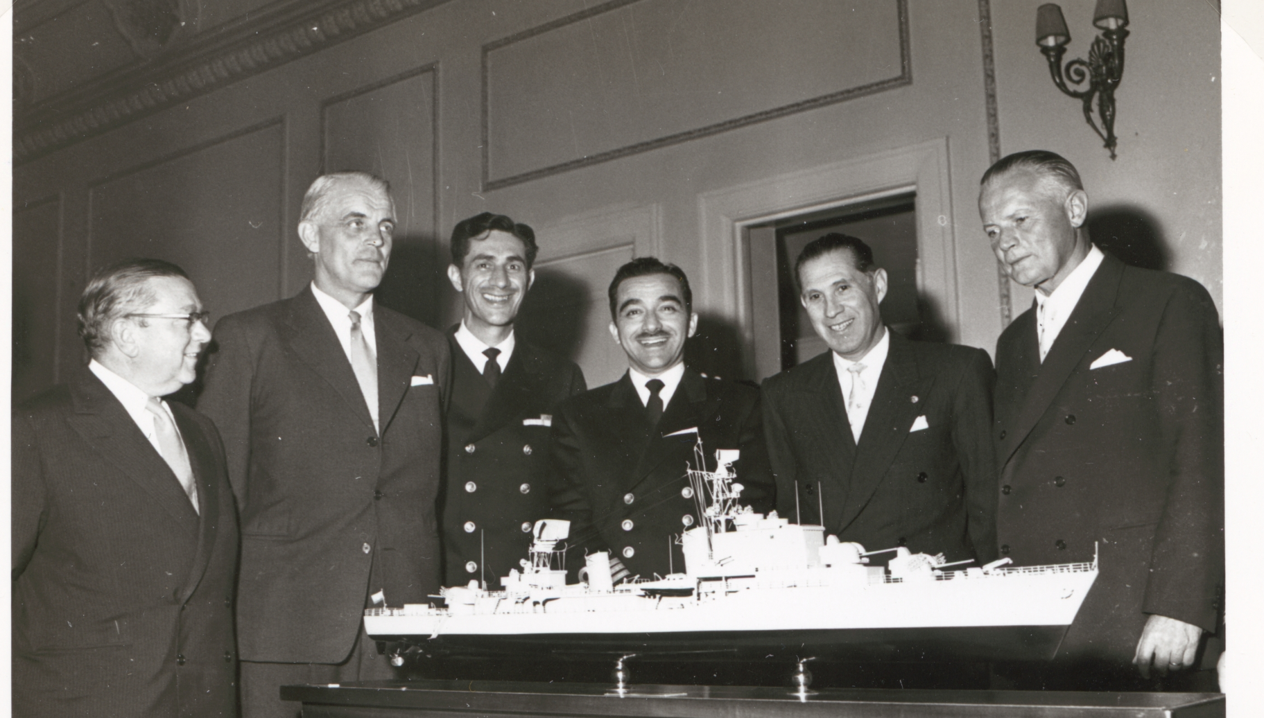 Picture taken of Swedish and Colombian delegation during the shifting of flags on the Kockums Built Destroyer ARC 20. de Julio for the Colombian navy. She's a modified Halland class with a third 12cm automatic turret and the weight offset by reducing other armaments.